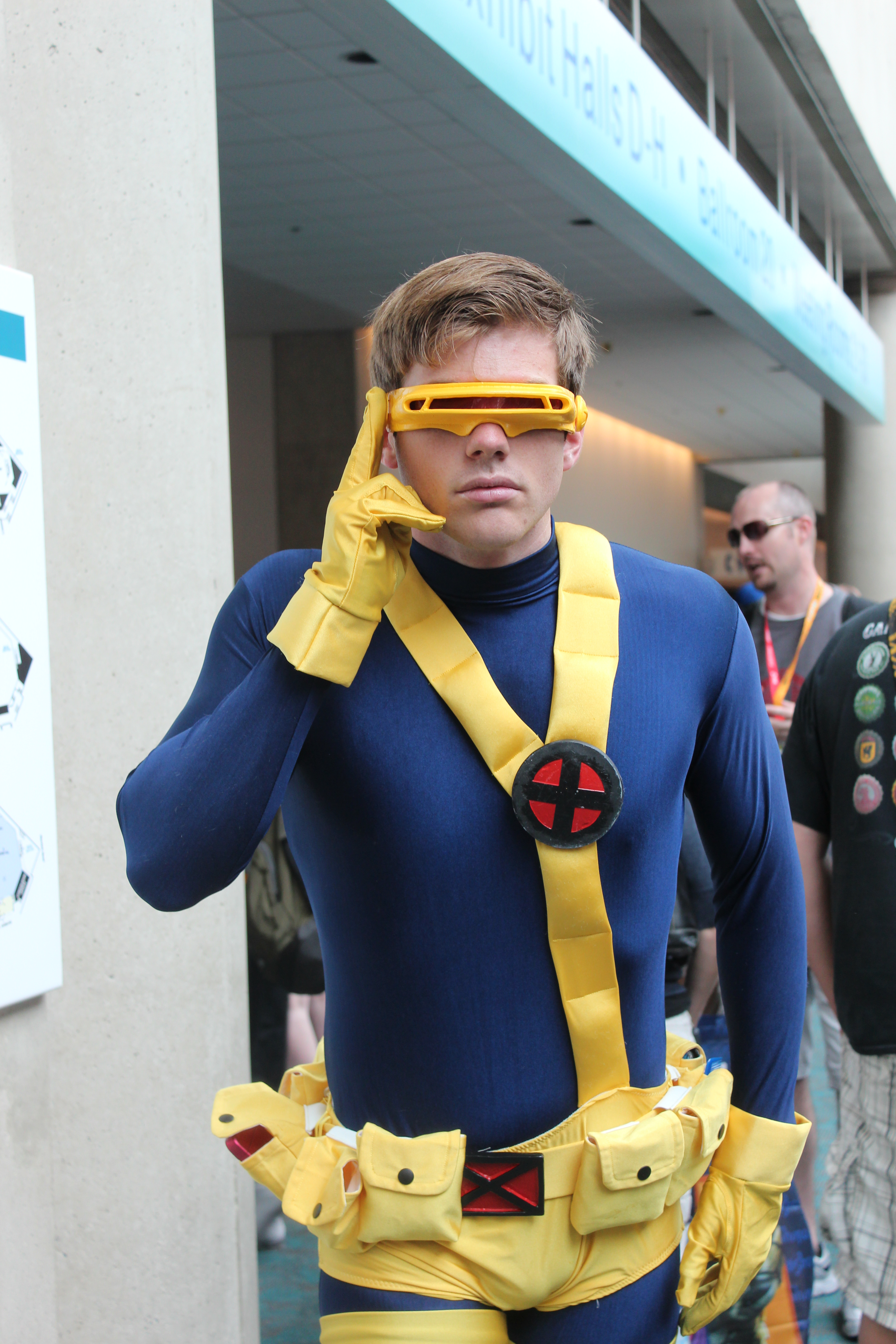 Cosplay at San Diego Comic-Con (SDCC 2012).